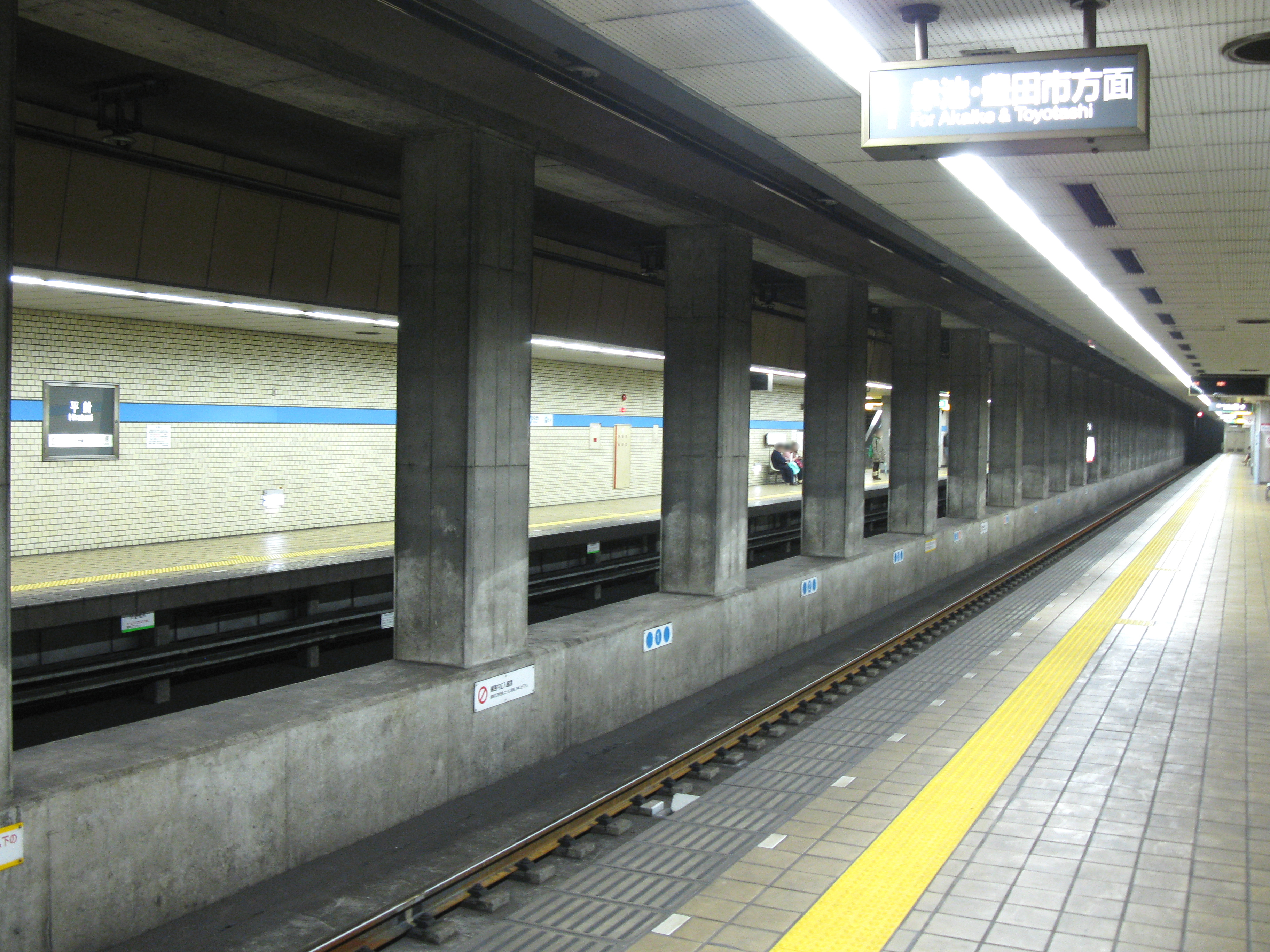 Hirabari Station platform (Nagoya Municipal Subway Tsurumai Line)